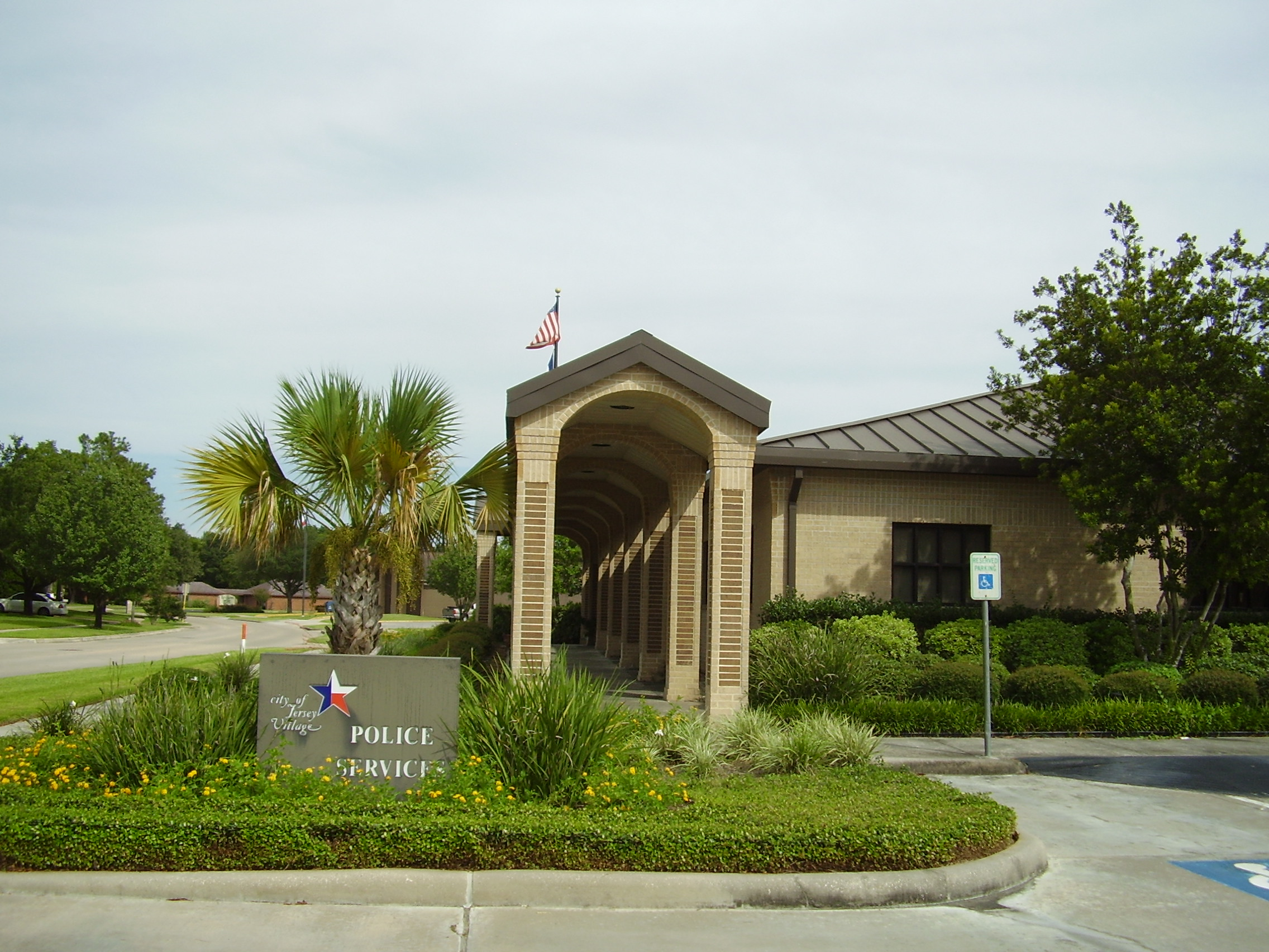 Jersey Village, Texas Police